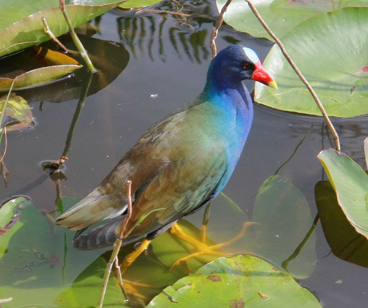 Purple Gallinule, (Porphyrio martinica) seen in the Florida Everglades